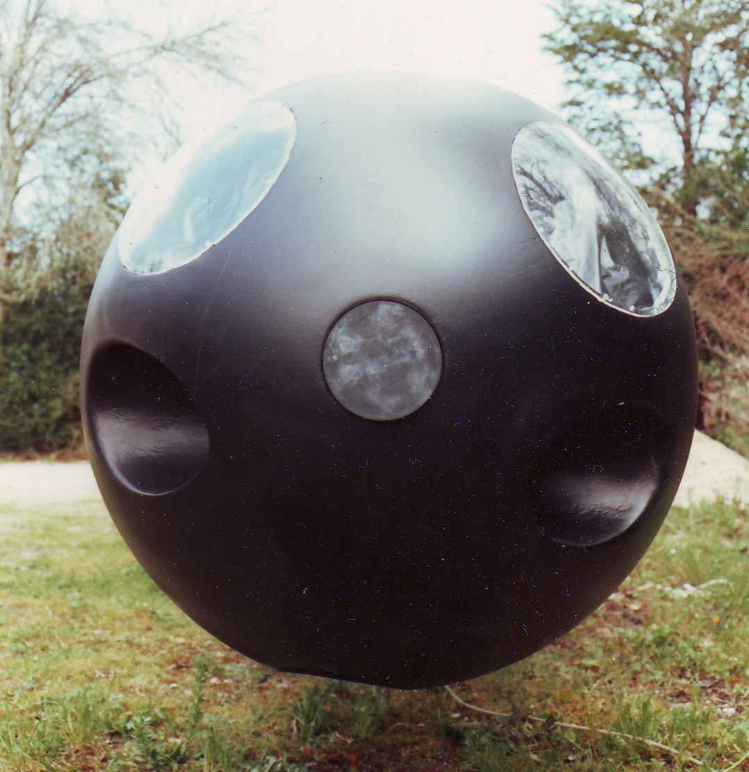 ASDV MARK 10 Bow